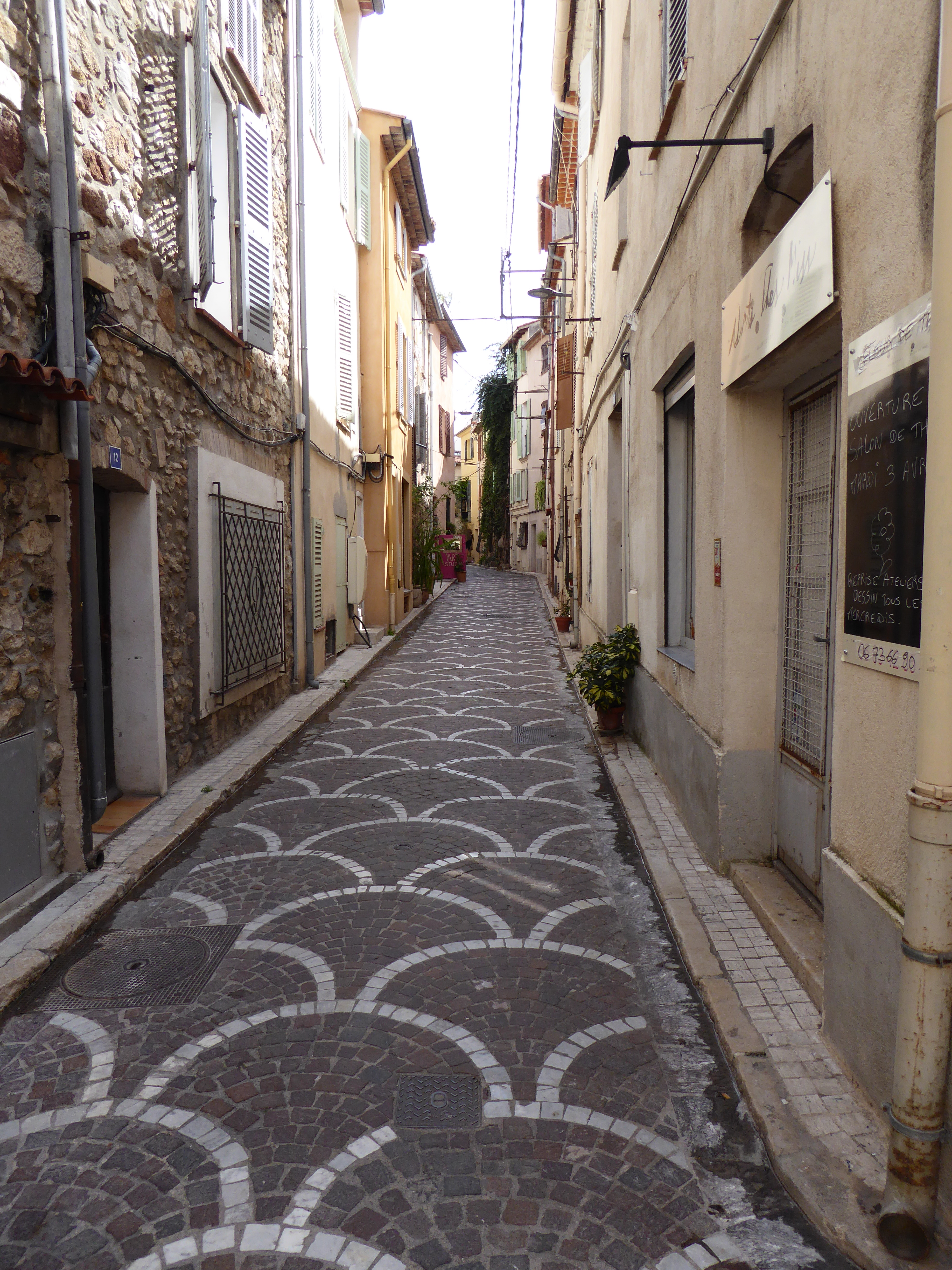 streets in Antibes